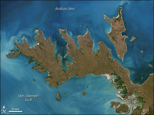 Cobourg Peninsula, Arnhem Land, Northern Territory, Australia